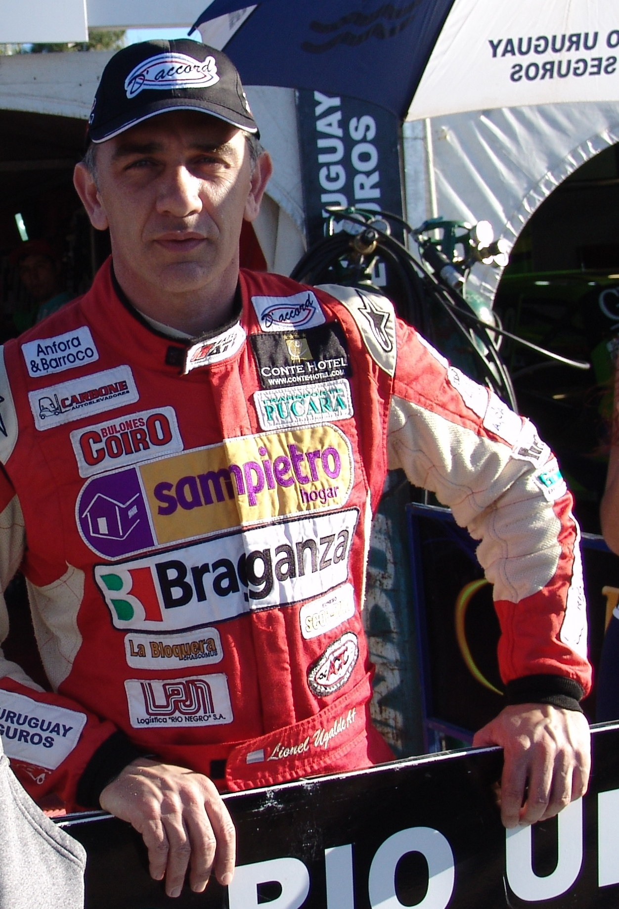 Argentinean race driver Lionel Ugalde at Autodromo General San Martin in Comodoro Rivadavia